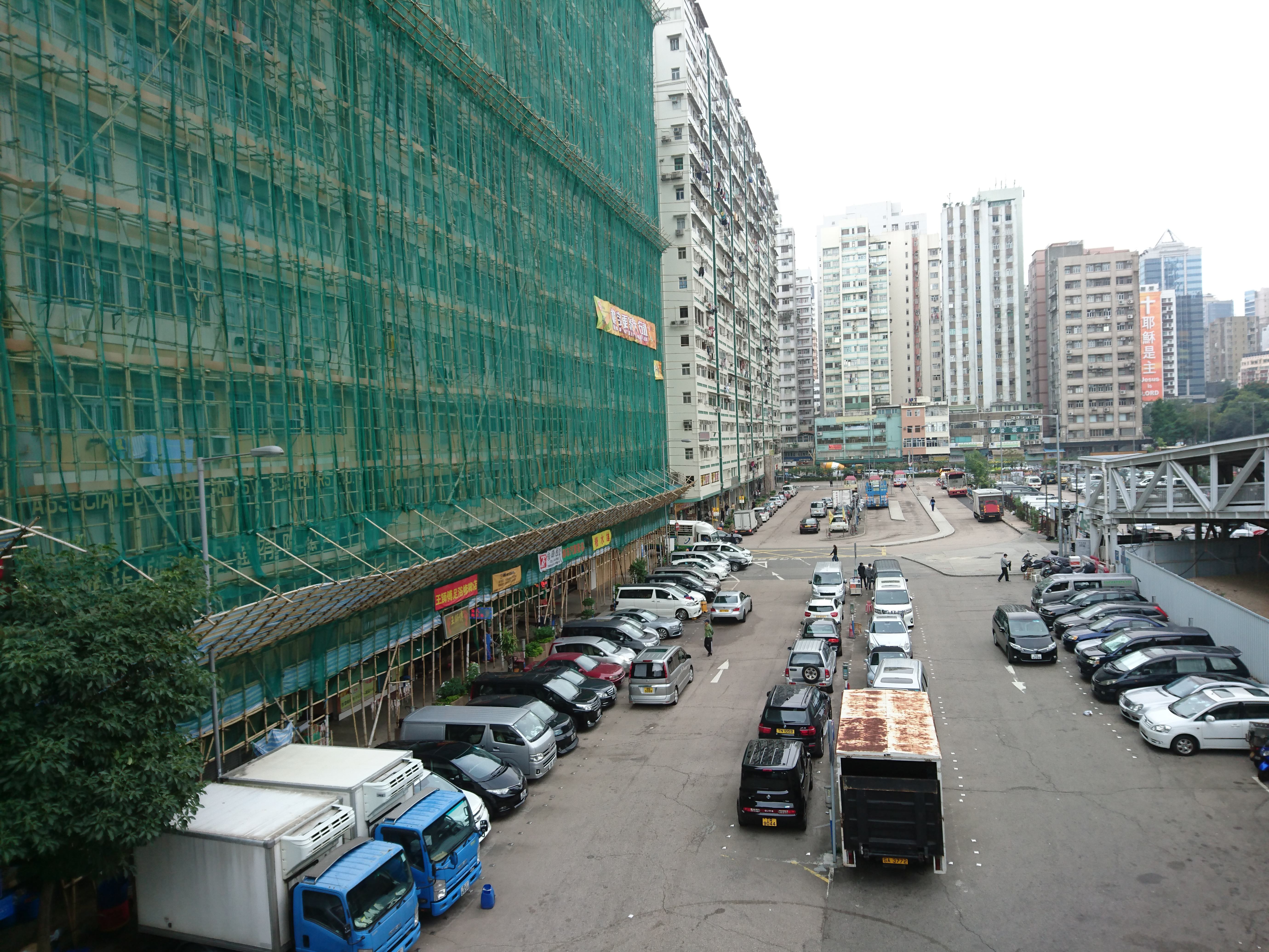 Man Wui Street near Man King Building